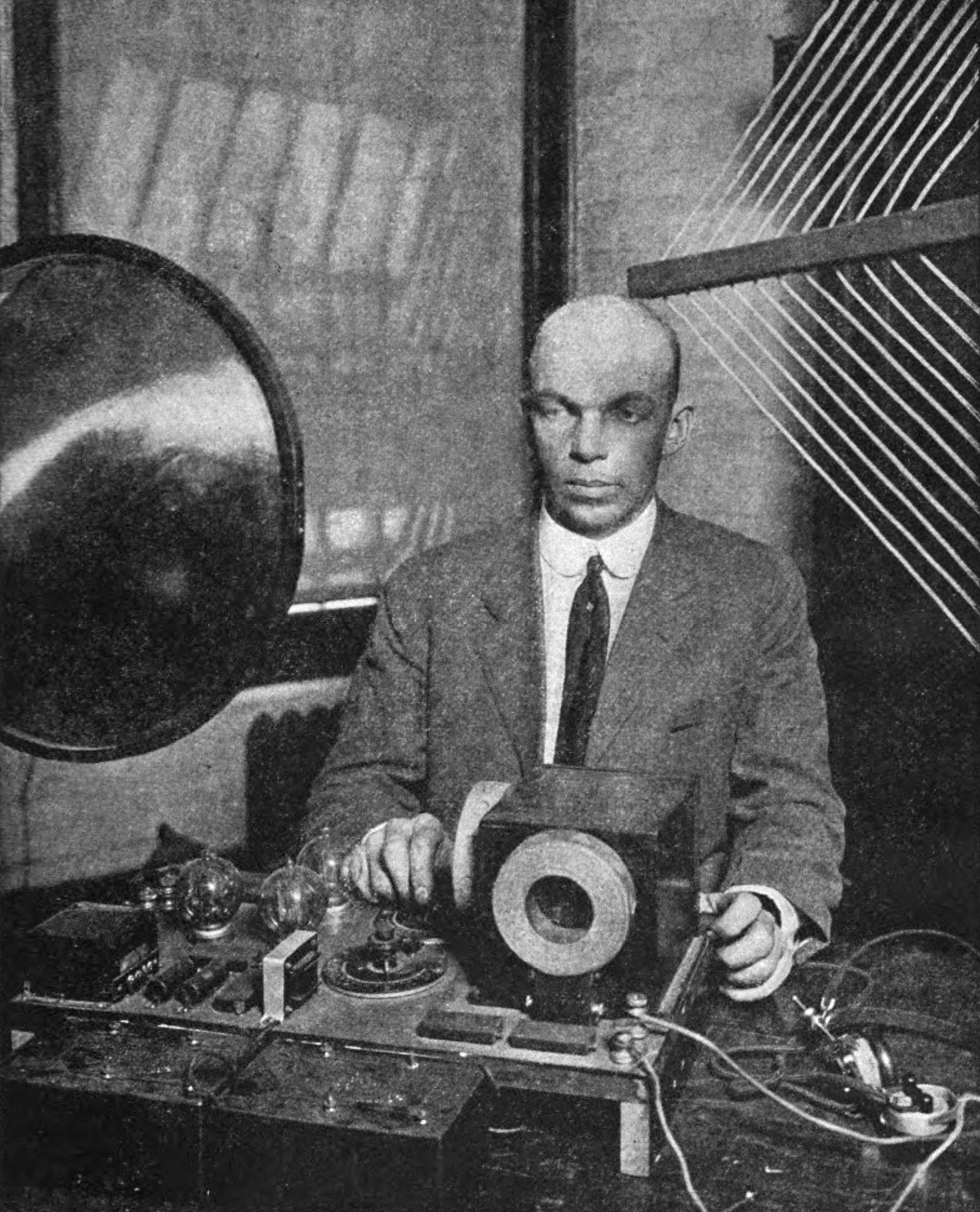 American radio researcher Edwin H. Armstrong and his new invention, the superregenerative receiver in 1922. This was probably taken at the June 28, 1922 meeting of the Radio Club of America in room 306, Havemeyer Hall, Columbia University, New York, at which Armstrong demonstrated the superregenerative receiver. The receiver used only 3 vacuum tubes (visible), but was as sensitive as existing receivers with 9 tubes. However it didn't prove as useful as the other receiver circuits he invented: the regenerative receiver and the superheterodyne receiver, which is used in virtually every radio and television today. The black metal bell (left) is the horn loudspeaker (modern cone loudspeakers hadn't been invented yet), and the wires on the frame (right) is the loop antenna for the radio. The caption of the photo read: "THE MAN WHO ORIGINATED THE ARMSTRONG CIRCUIT Hertz, Marconi, De Forest - and now Edwin H. Armstrong, head the list of scientists who have made radio, as we know it today, possible. Armstrong has the honor of making three definite contributions to radio. FIRST, he originated the regenerative feedback vacuum tube circuit. SECOND, he originated the super-heterodyne circuit, the most sensitive receiver ever produced. THIRD, he invented the superregenerative receiver, which has just taken the world by storm and which bears his name."